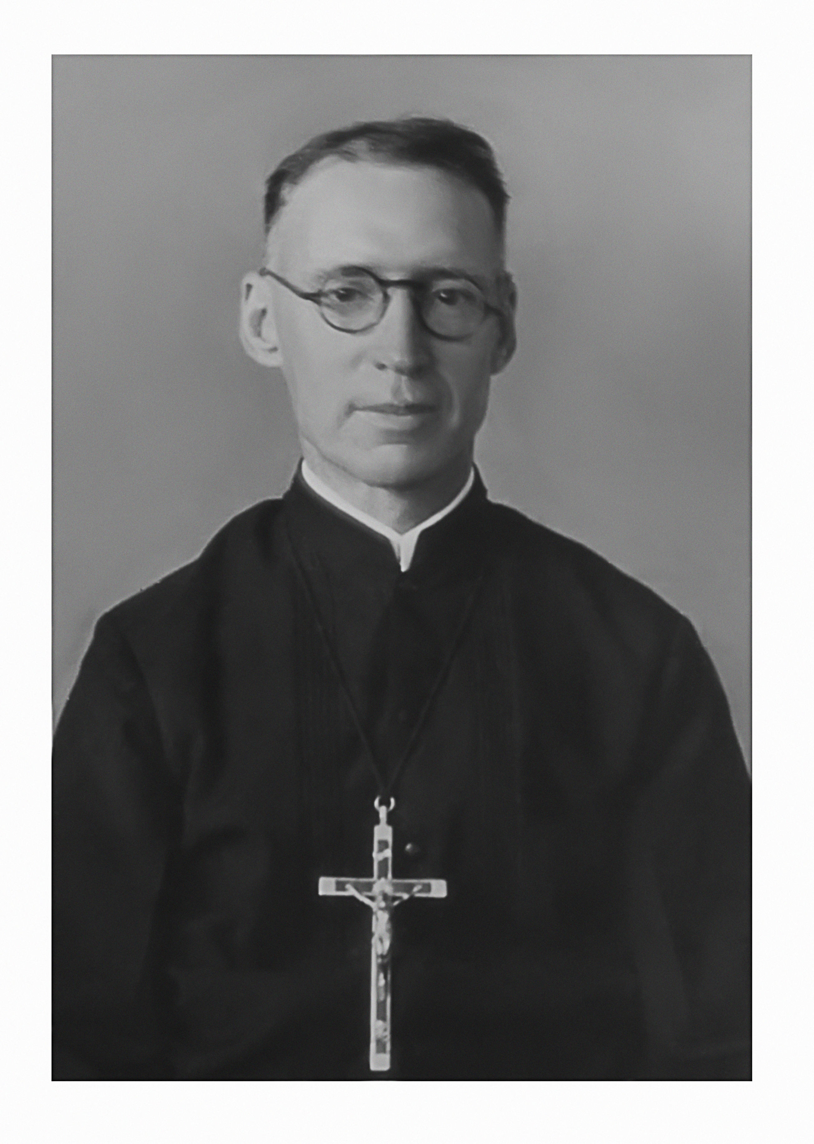 Photo taken in 1941 at Metuchen